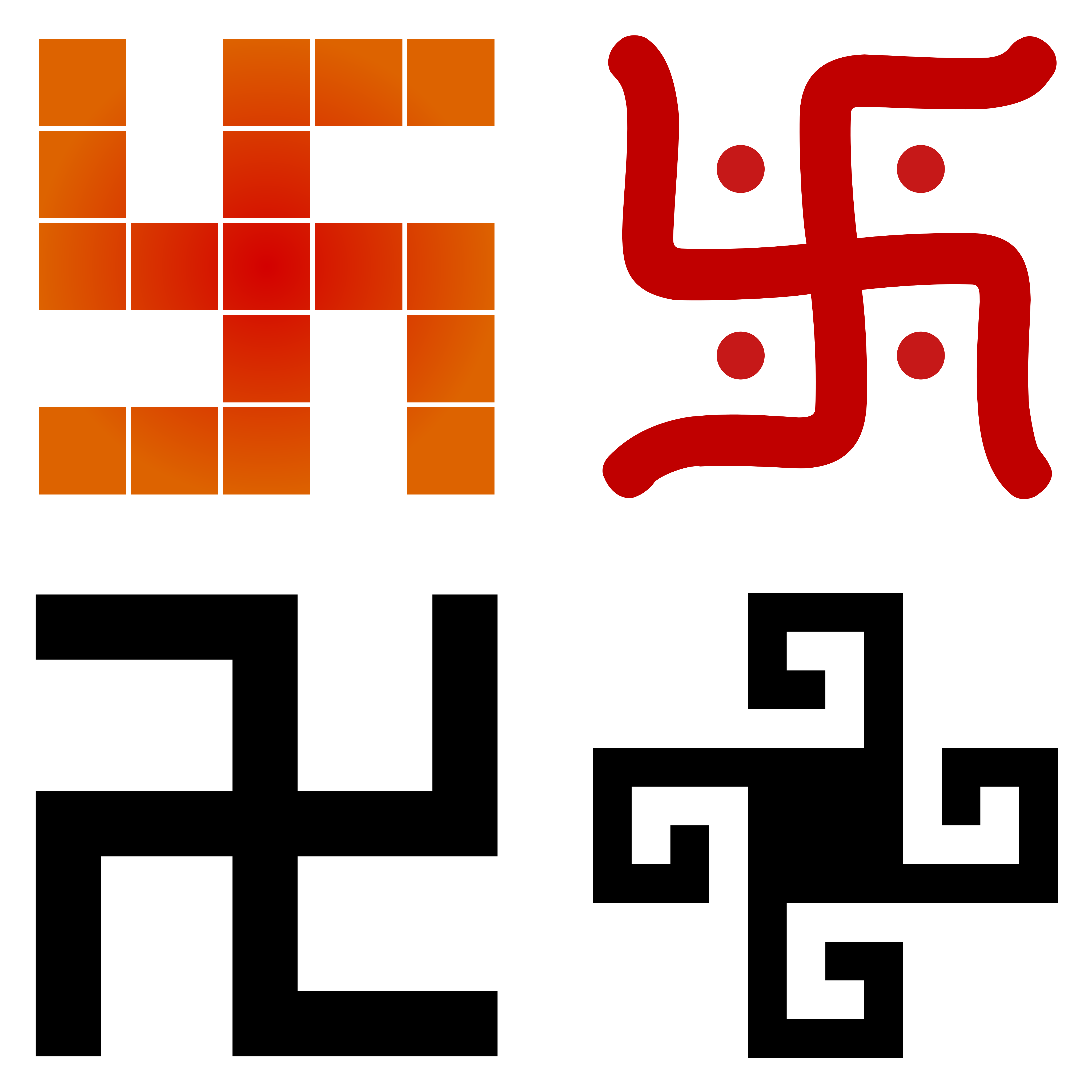 Recreation of A collage of four swastika styles.jpg with a transparent background and saved in a lossless raster format. The original image is itself a derivative work of these four images: 17-square swastika.svg HinduSwastika.svg Swastika solarsymbol.svg Aztec Swastika.svg